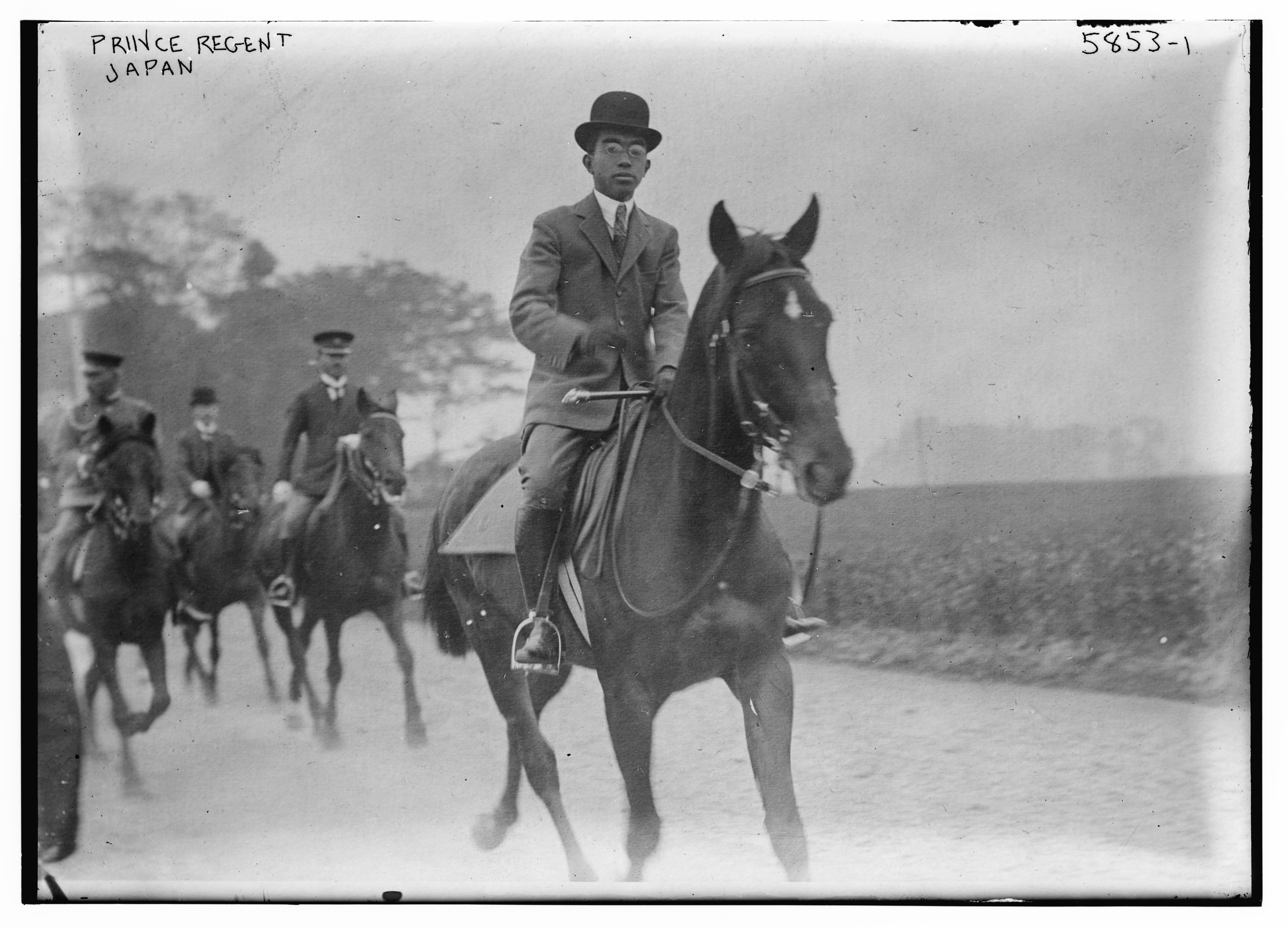 Title: Prince Regent, Japan Abstract/medium: 1 negative : glass ; 5 x 7 in. or smaller.